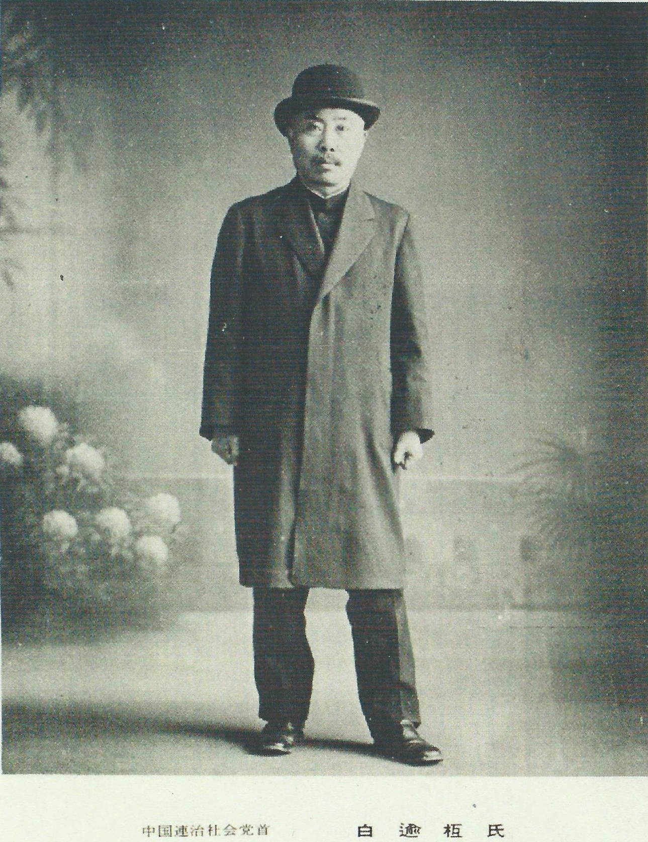 Bai Yuhuan (Pai Yü-huan) (1875 - 1935)